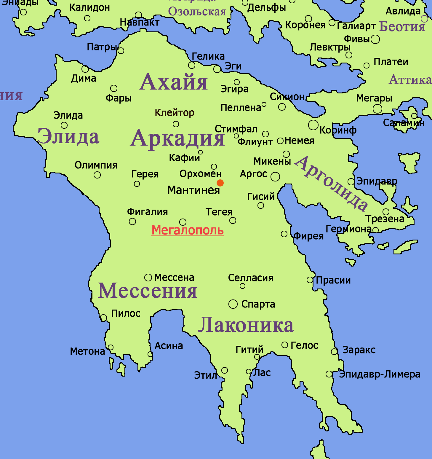 Megalopolis (Peloponnes)